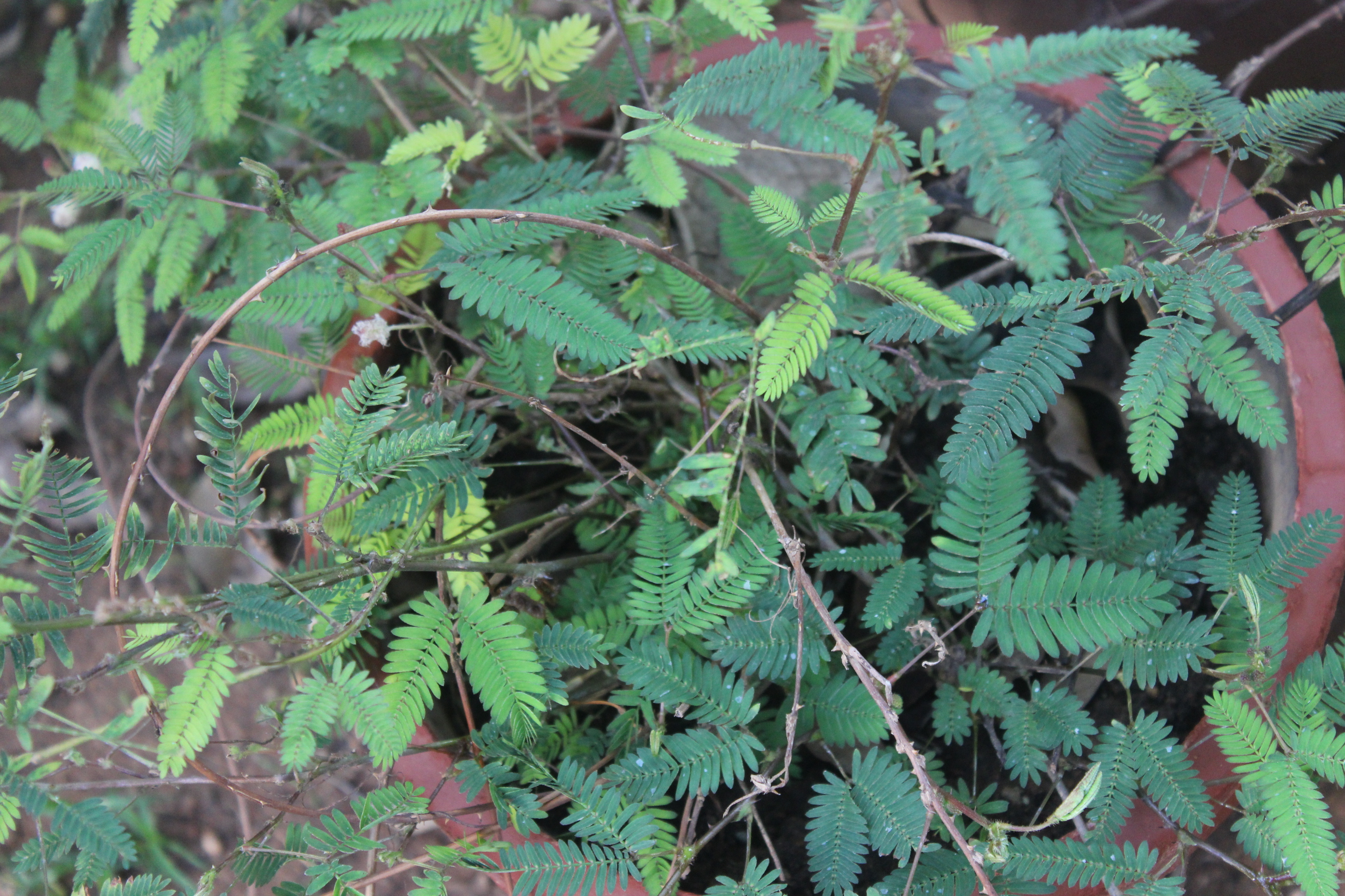 Muttidare muni